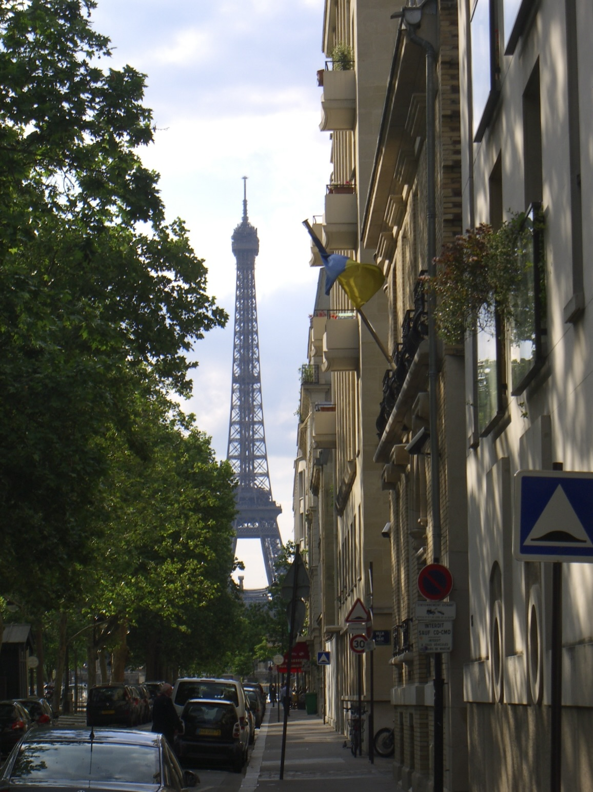 Ukrain Embassy in Paris